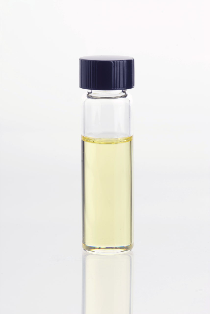 Glass vial containing Eucalyptus Staigeriana Essential Oil